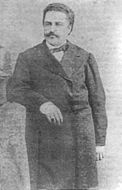 Celso Cesare Moreno (1830 – 1901).